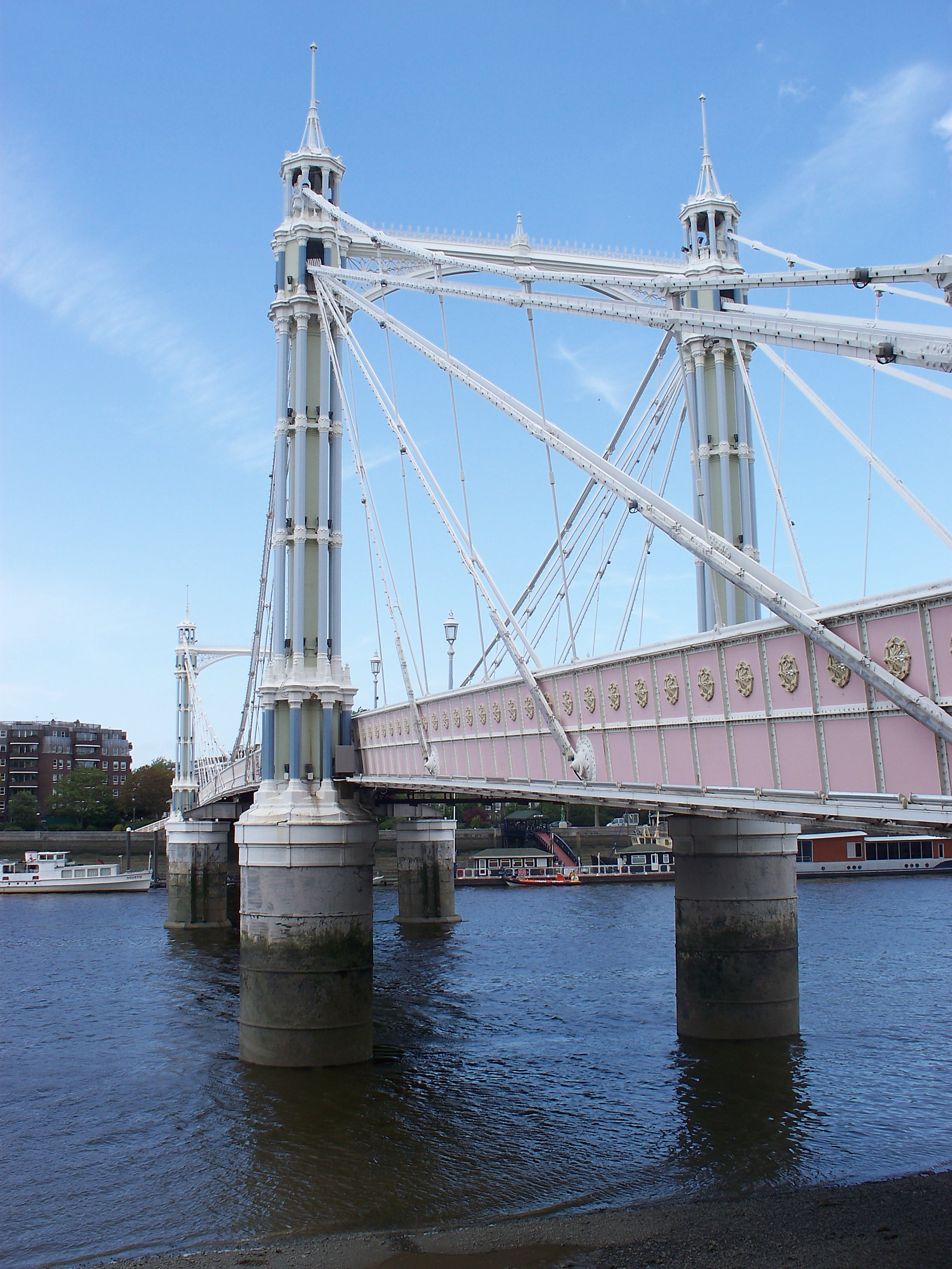 Albert Bridge, London. Photograph taken in a public location in the UK of a building on permanent public display, and exempt from copyright under Section 62 of the Copyright Designs & Patents Act 1988 ("it is not an infringement of copyright to film, photograph, broadcast or make a graphic image of a building, sculpture, models for buildings or work of artistic craftsmanship if that work is permanently situated in a public place or in premises open to the public")